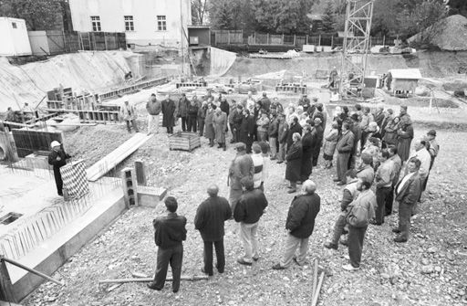 Local paper #13: Laying of the cornerstone